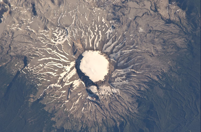 Puyehue Volcano